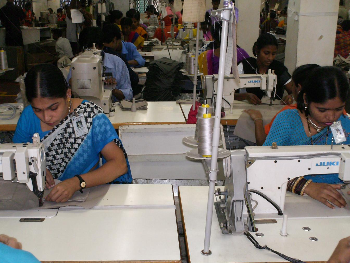 Women working in a clothing factory. This photo was taken during a fact finding mission by the FIDH in Bangladesh.